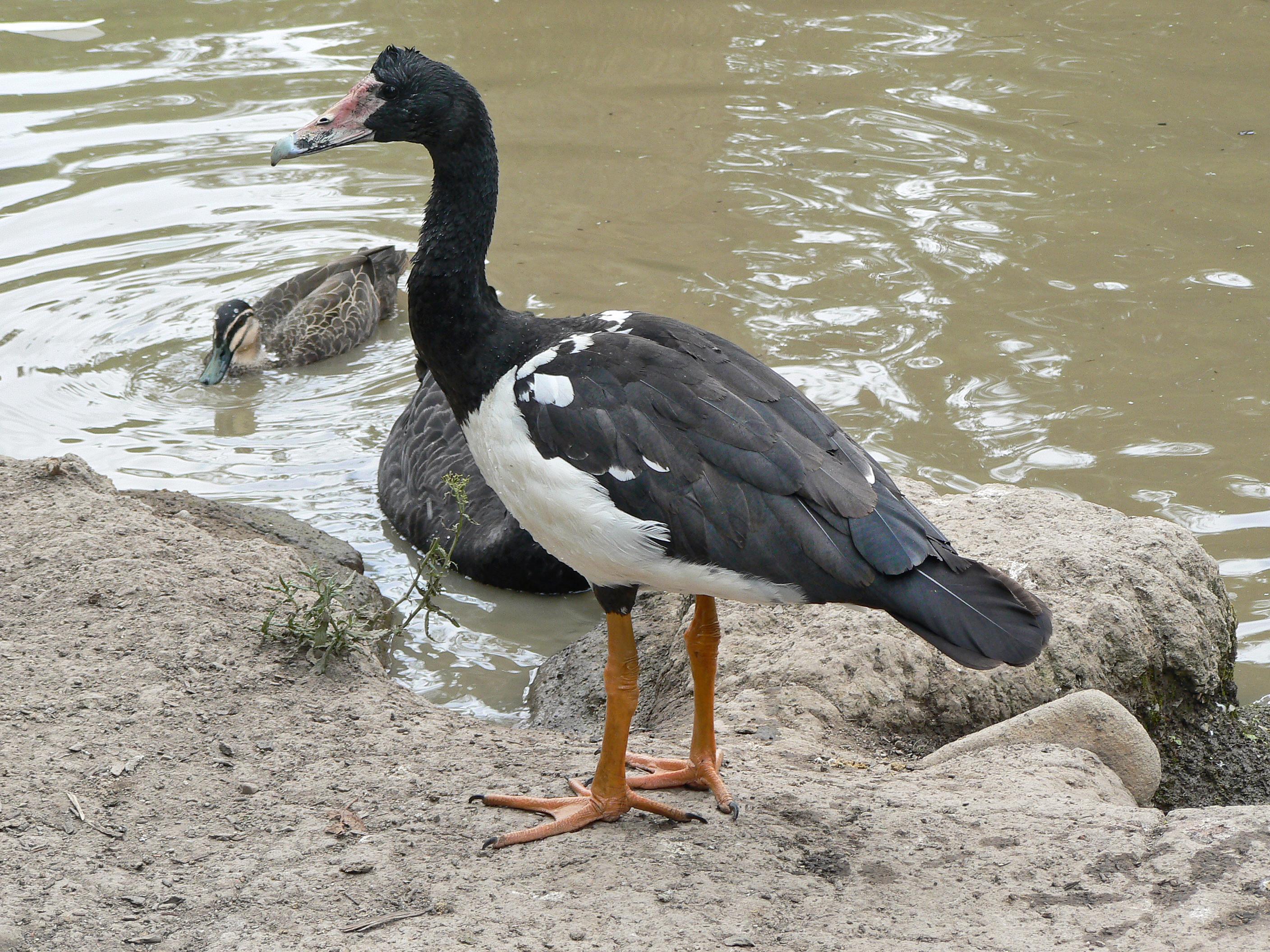 Picture of a Magpie Goose. Taken at Healesville Sanctuary, Victoria Australia